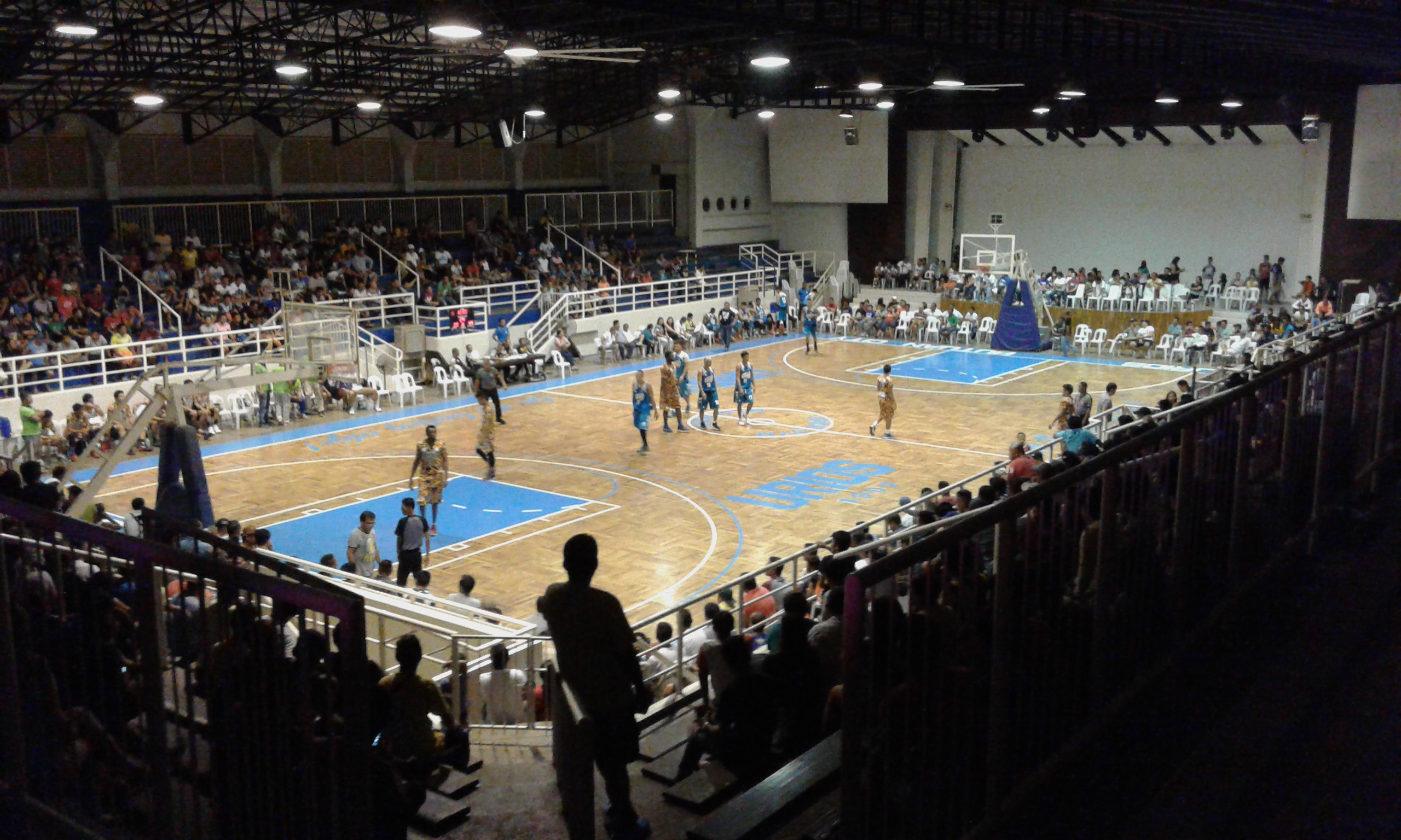 This photo was shot during the 1st RCL Basketball Tournament in Butuan.